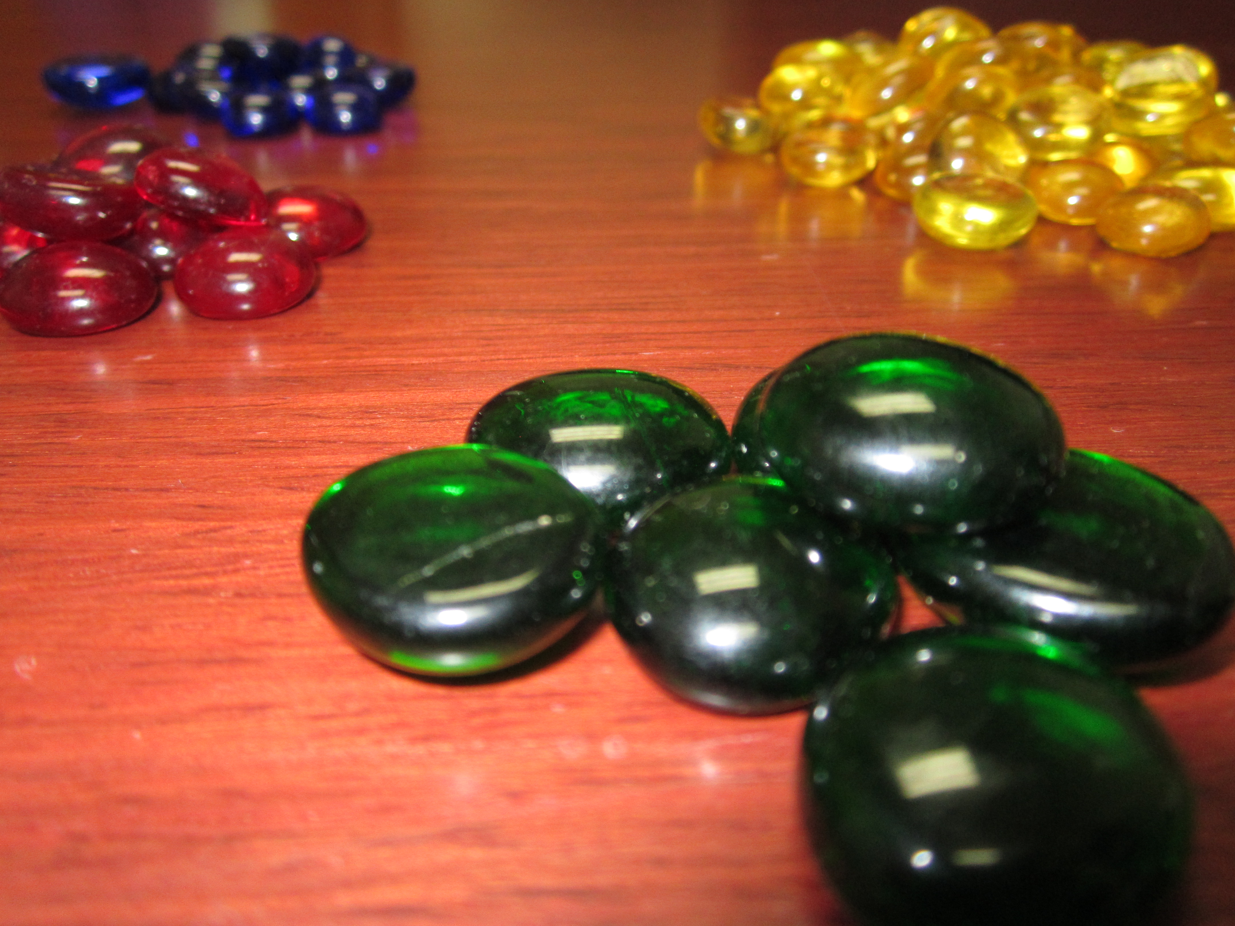 A picture of glass beads.